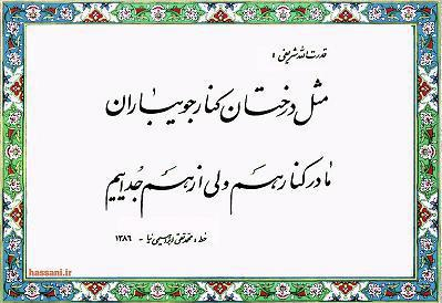 شعر جویباران قدرت الله شریفی